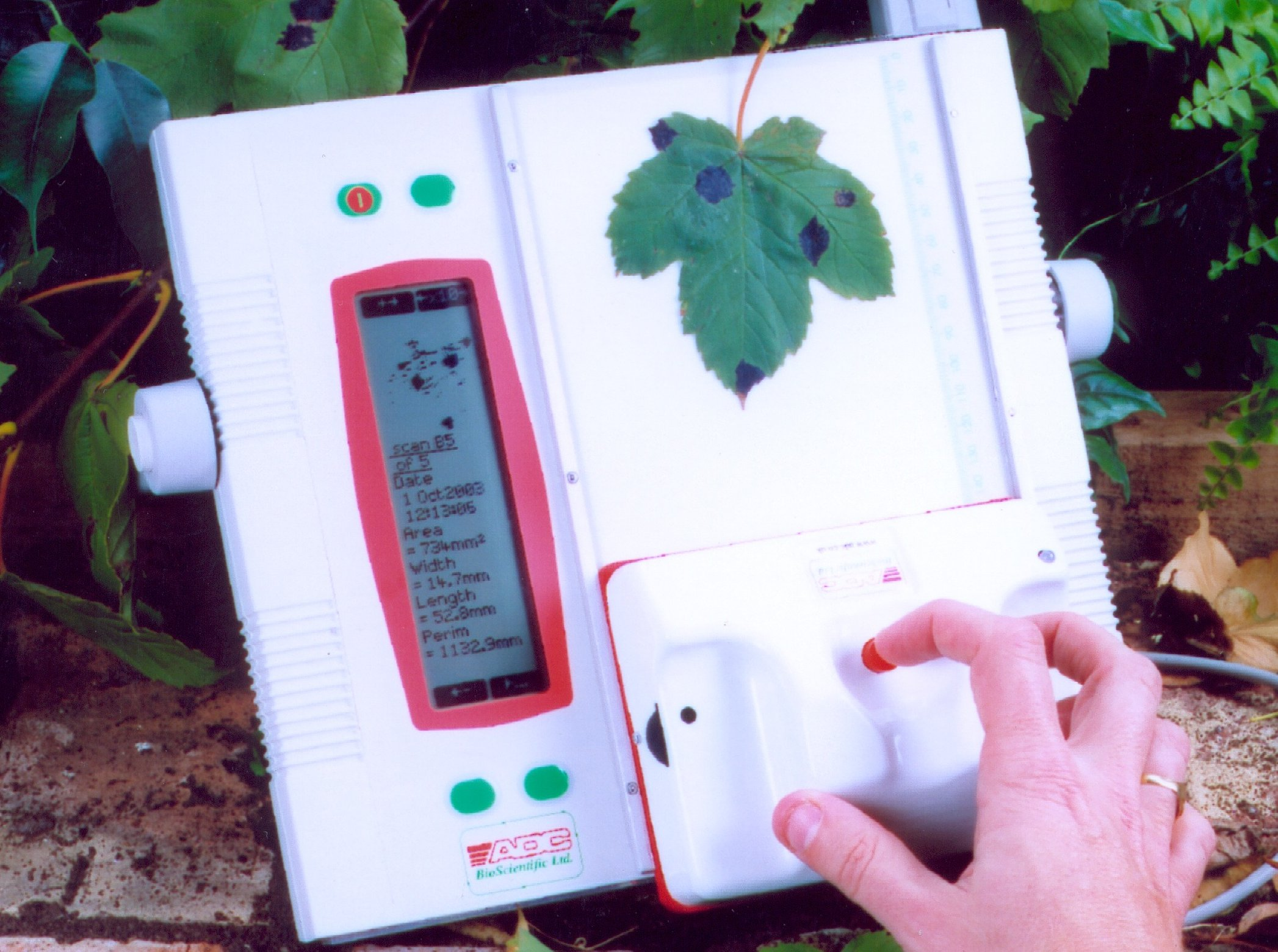 AM300 being used to measure the area, width, length and perimeter of a leaf